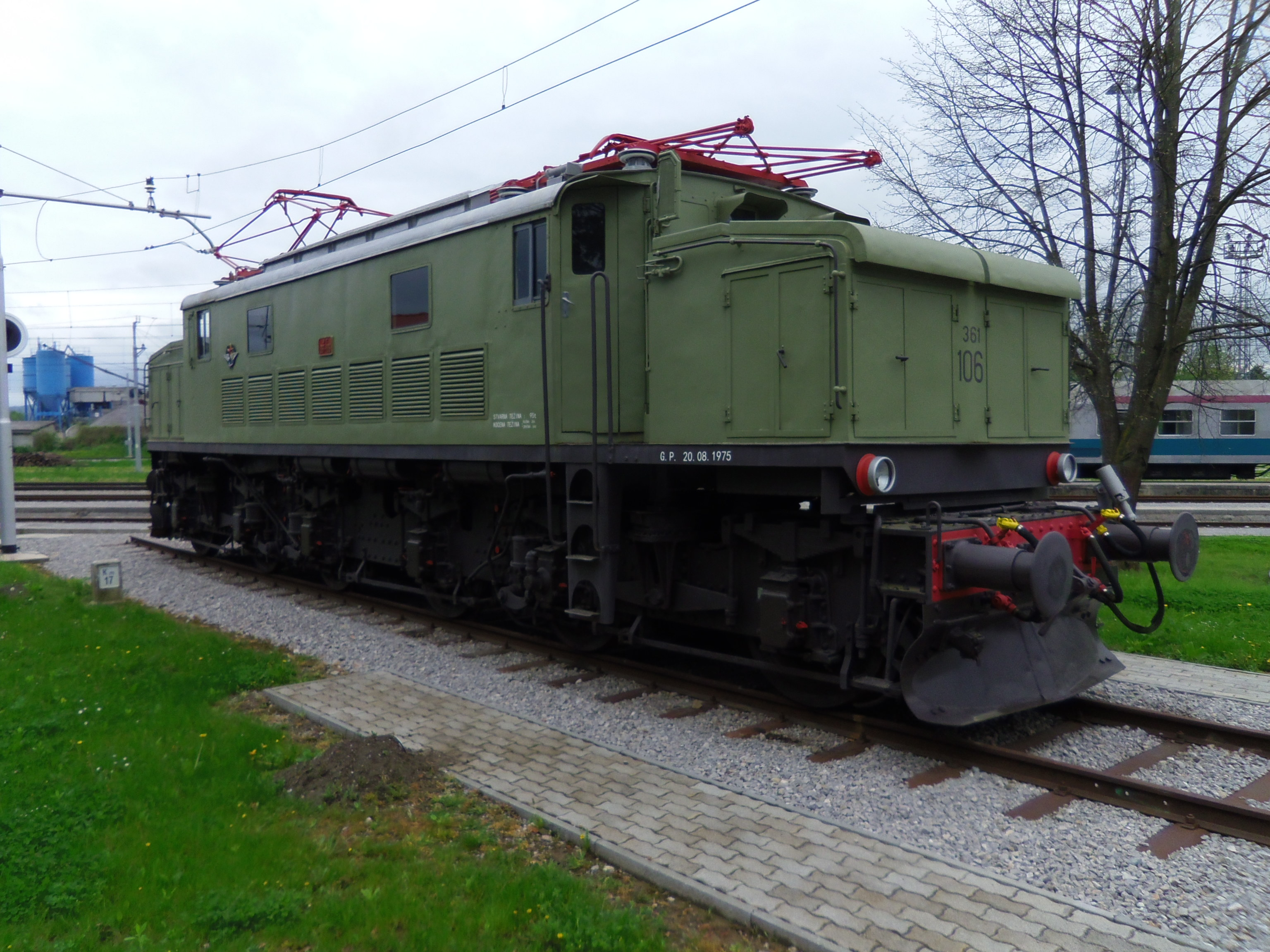 Lokomotiva 361-106 displayed in Ilirska Bistrica